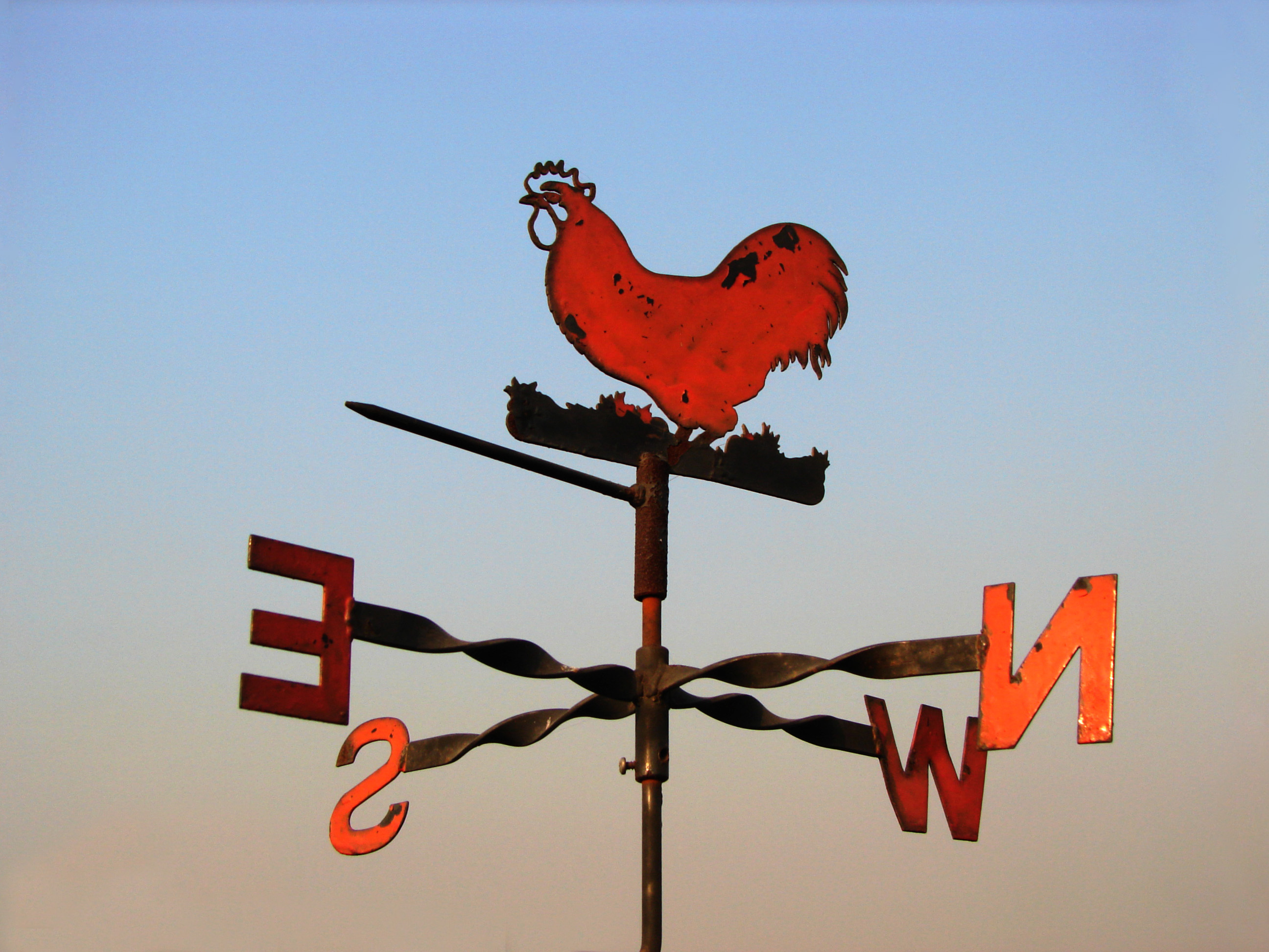 Wind Vane, Weather cock, Weather vane